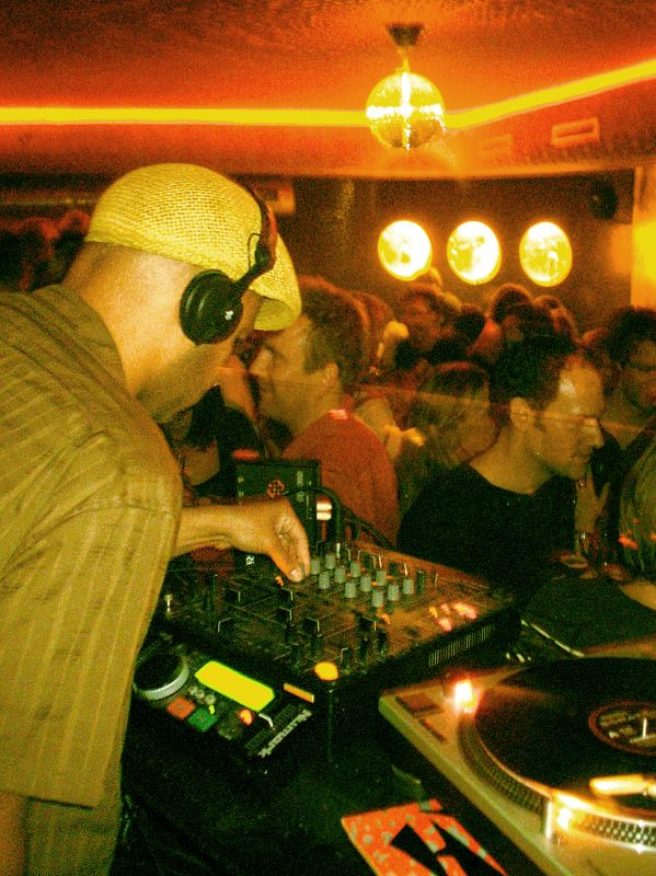 Very nice party with smooth tripping and reggae beats at Sidarta East-West Lounge . With DJ e.a.s.e. (Nightmares on Wax) 25 sec (1/4) Aperture: f/2.8 Focal Length: 7.3 mm Flash: Flash fired